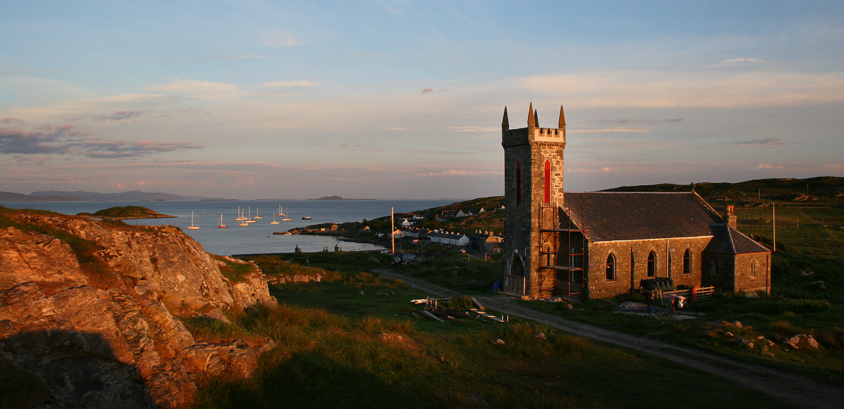 Photo shot by By myself, Cannikin13, and I release it to the public domain.